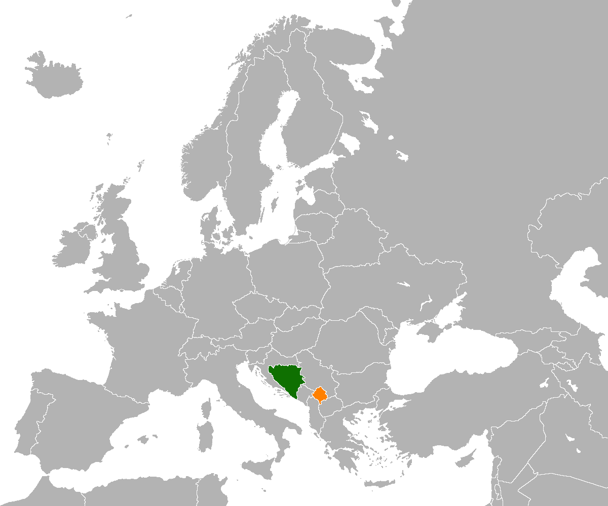 Map showing locations of both Bosnia and Kosovo